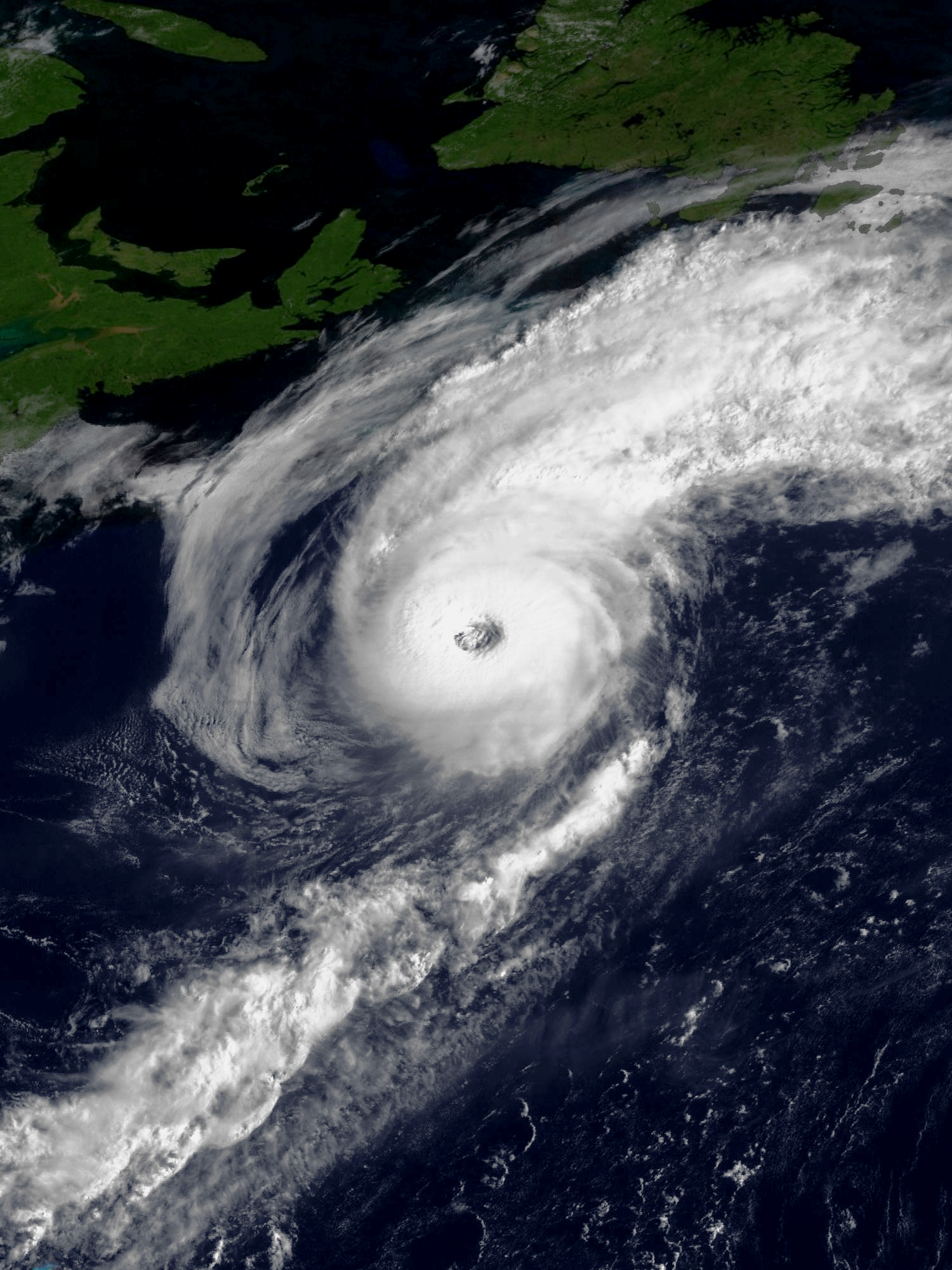 Hurricane Alex at peak intensity south of the Canadian Maritimes on August 5, 2004